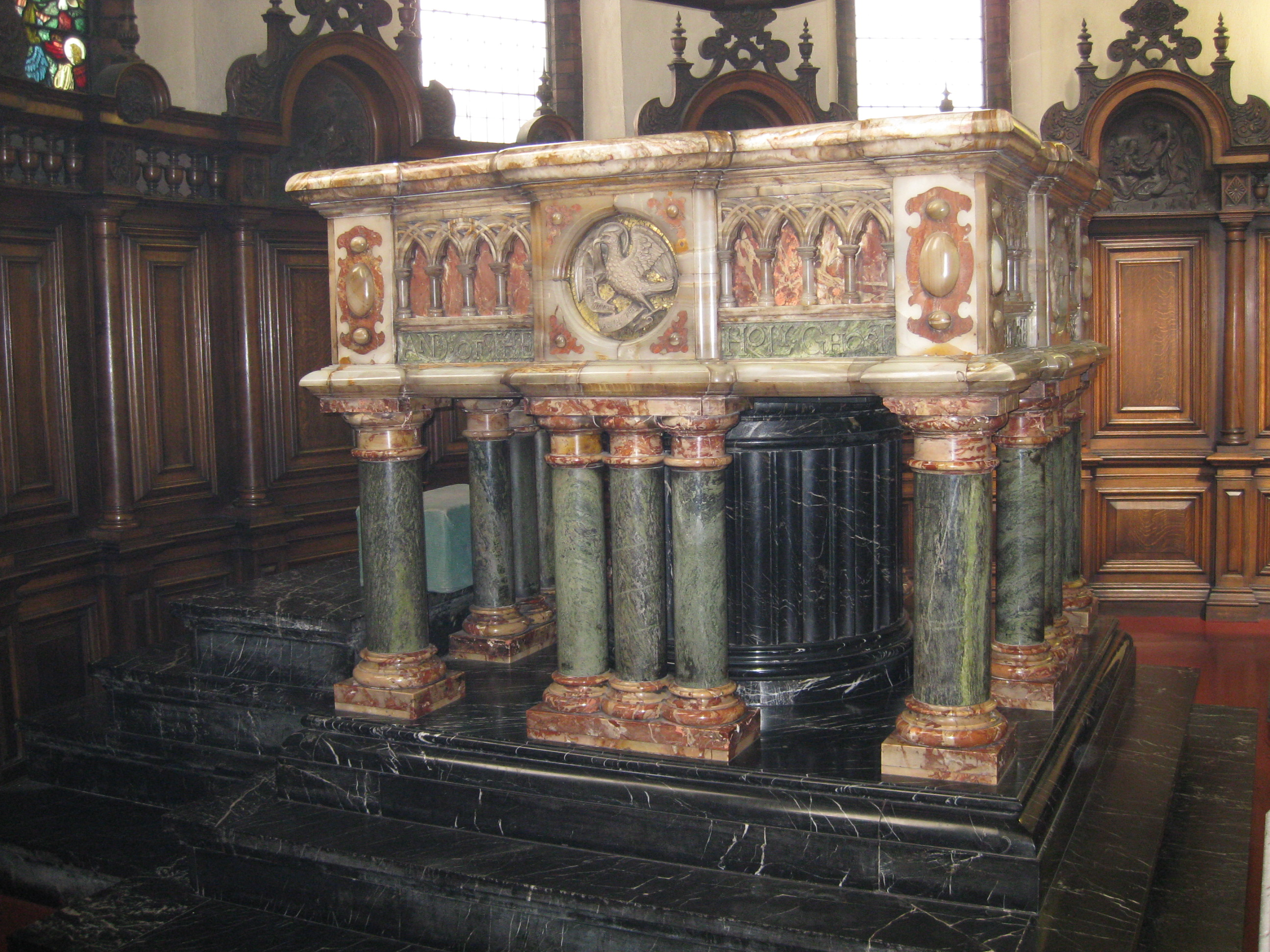 Font in St Aidan's Church, Leeds, UK. Made at the Elswick Court marble works in Newcastle-upon-Tyne. Mexican onyx, Irish green marble, Belgium blue marble. The bowl is in red marble.